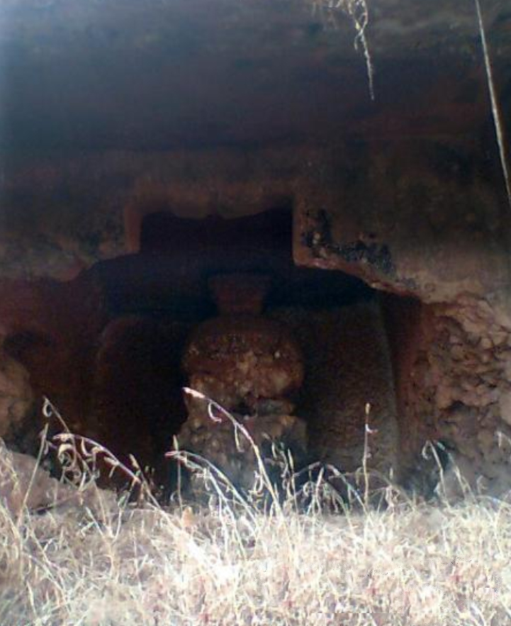 Patan Leni